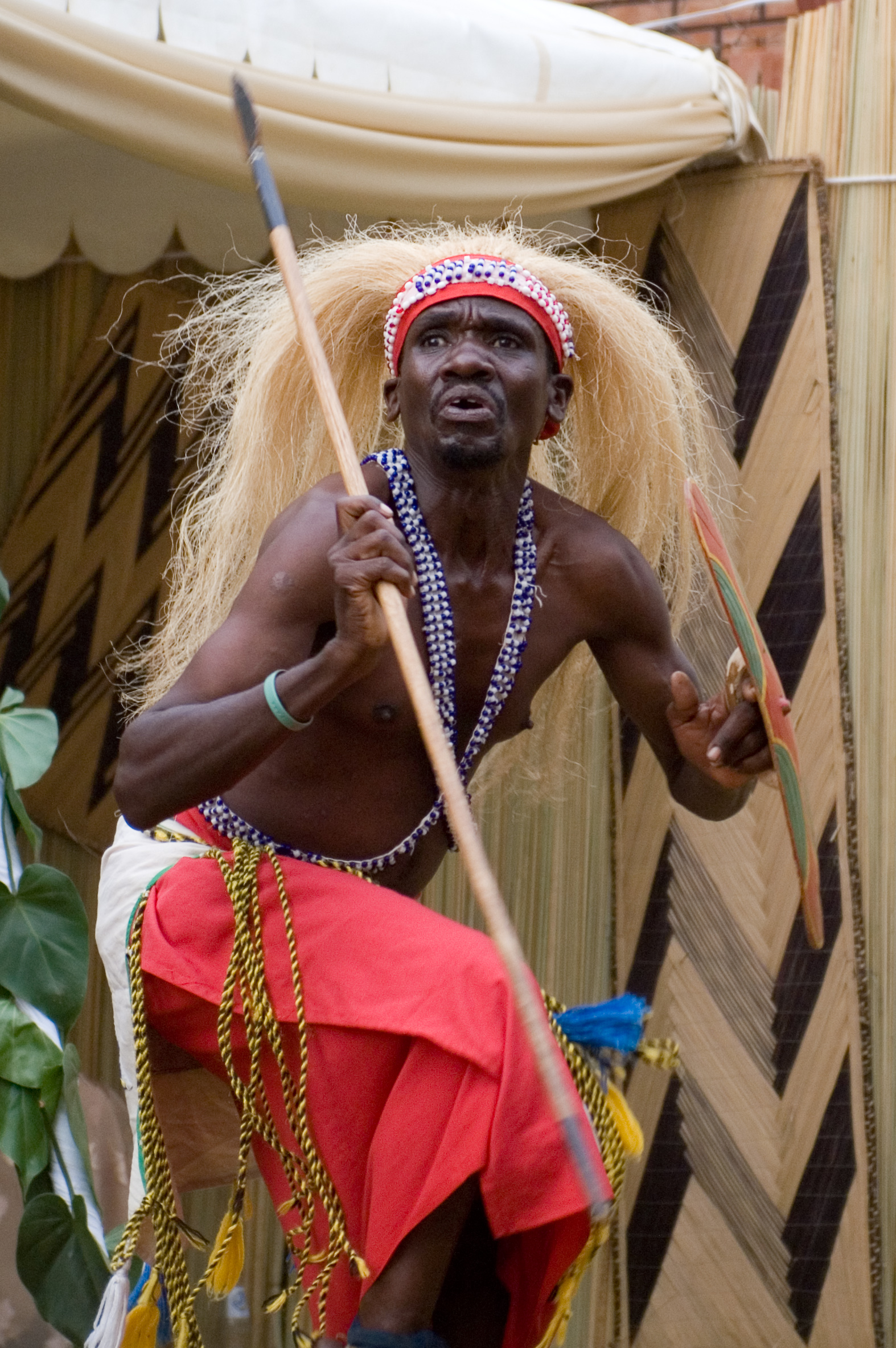 Intore (Rwandan warrior)